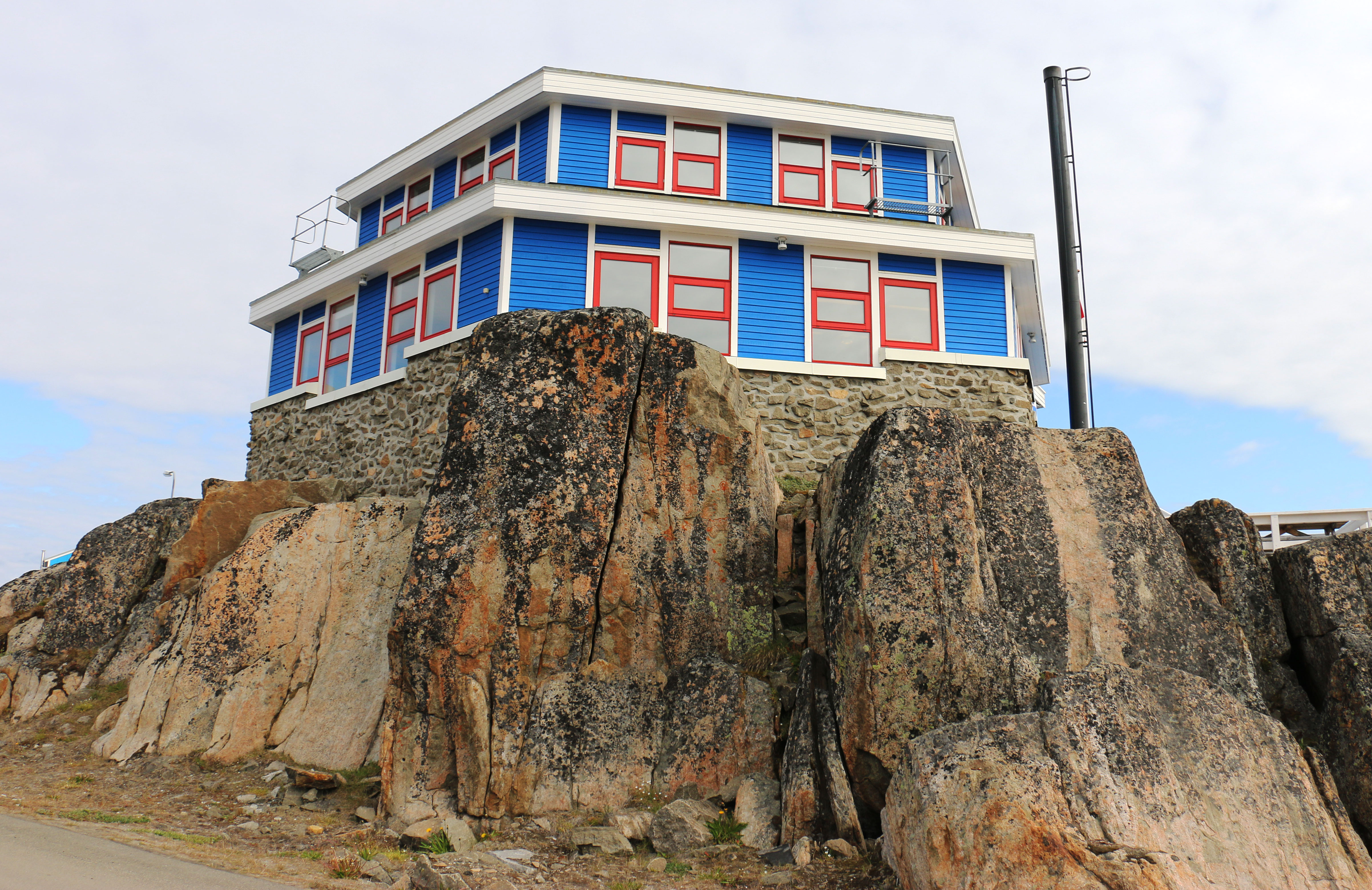 DTU's campus in Sisimiut as it looked in august 2017. The campus is situated at Siimuup Aqqutaa 32 in Sisimiut, Greenland.